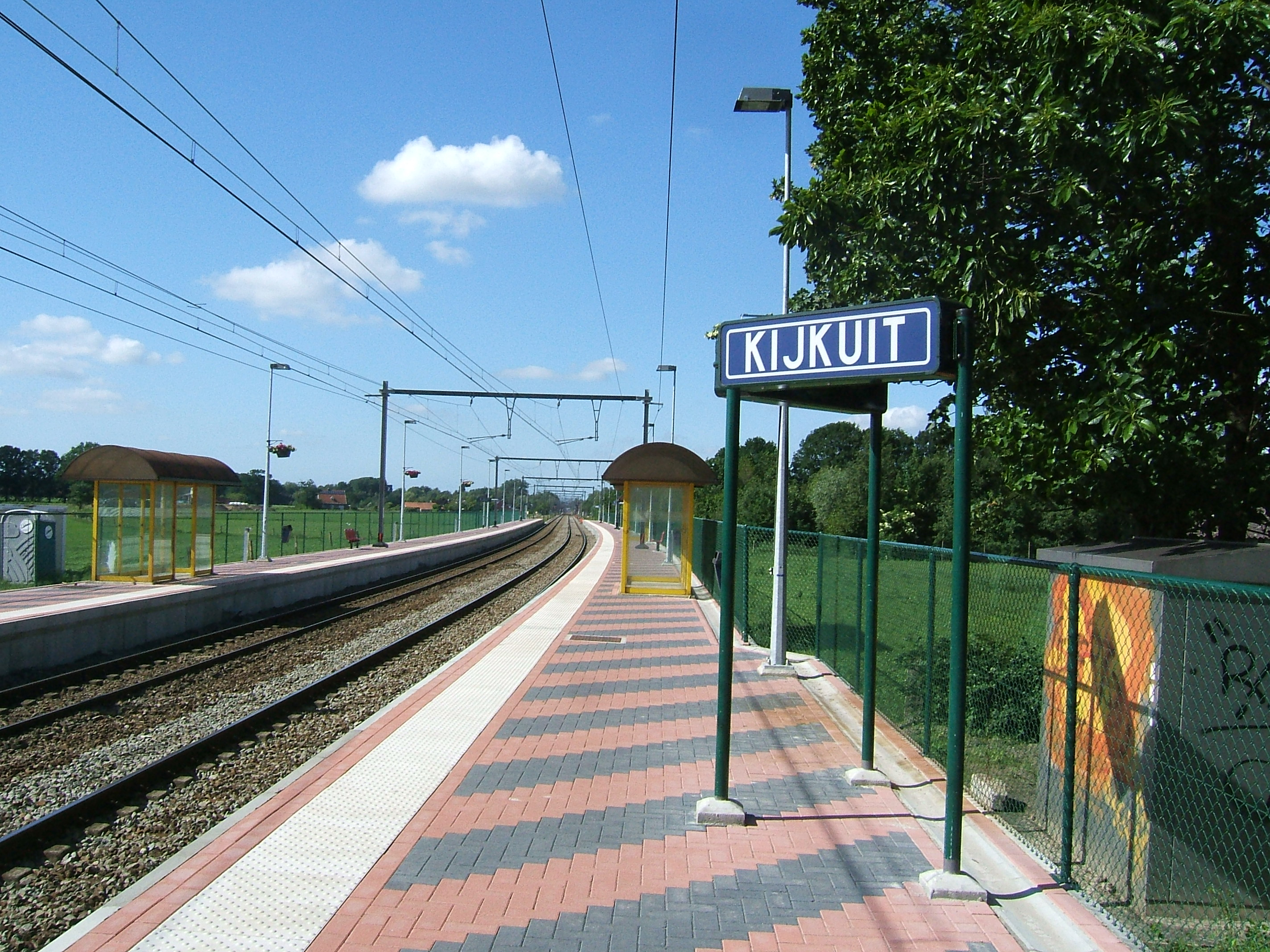 Kijkuit railway halt, Kalmthout, Belgium